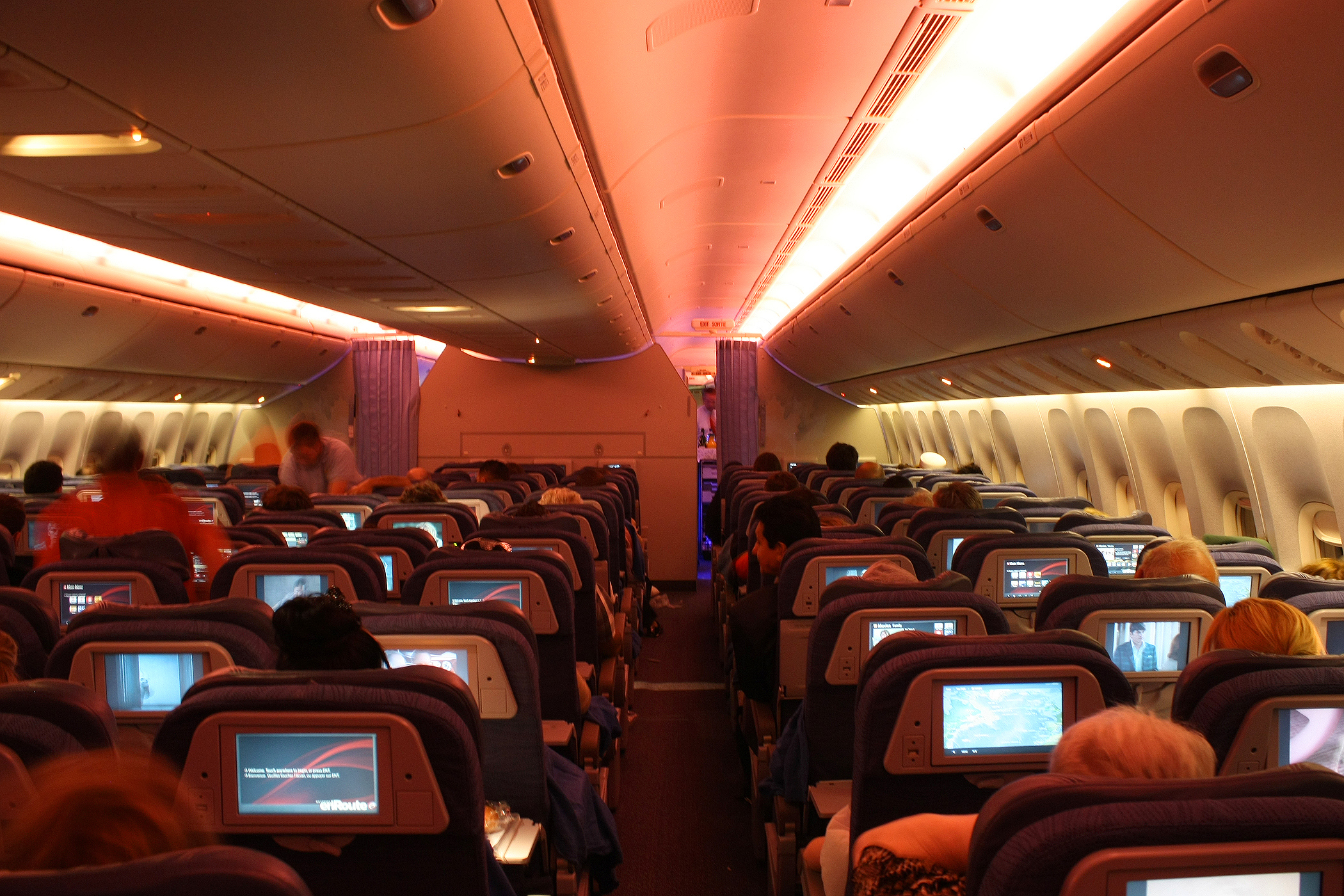 Air Canada economy class in a Boeing 777-300ER at night